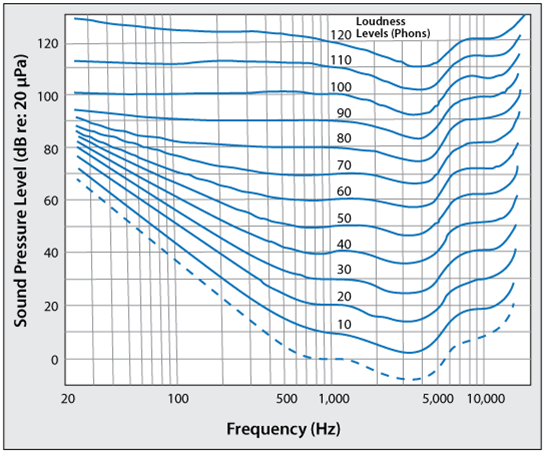 Fletcher-Munson Contours